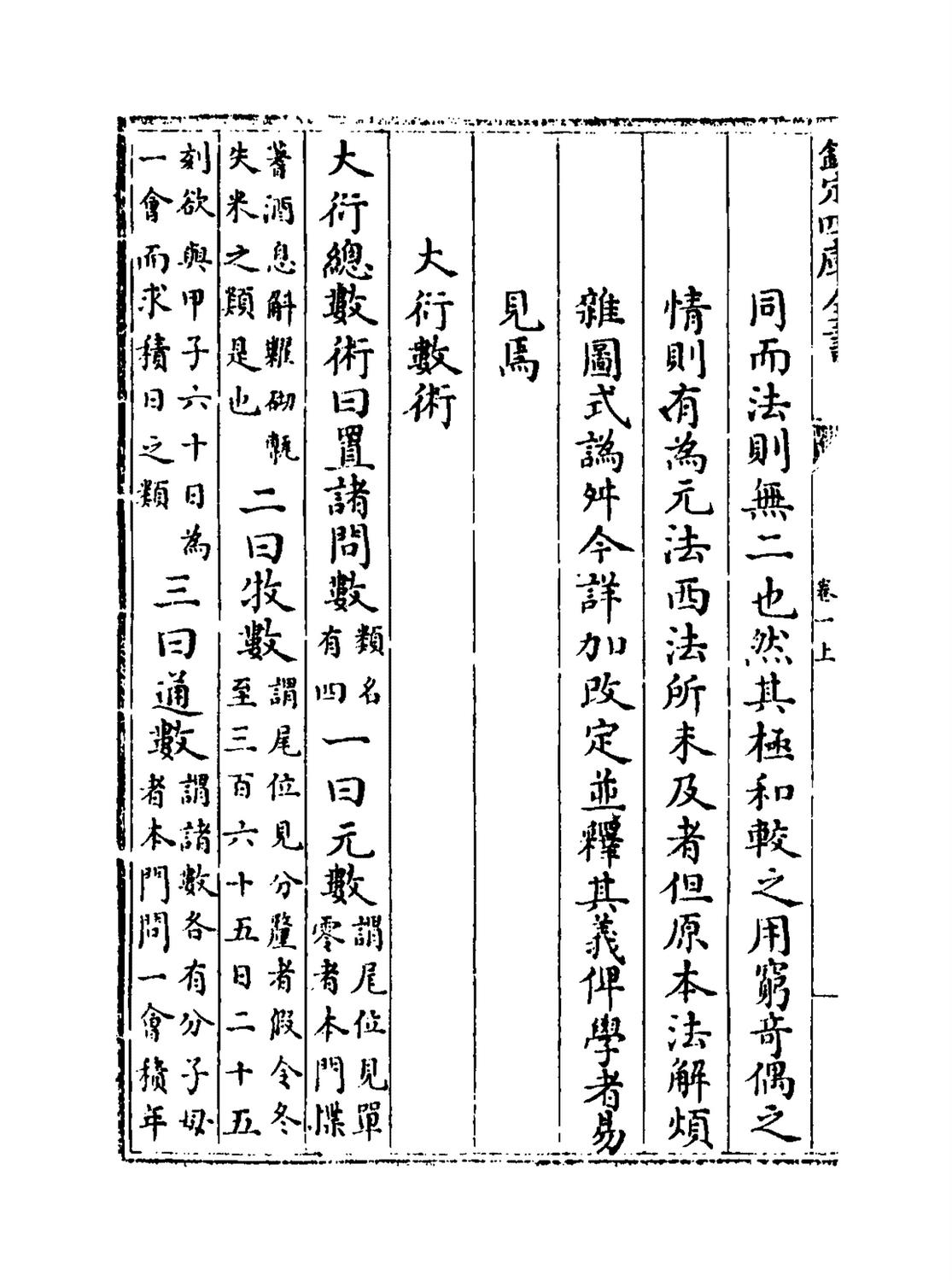 Qin Jiushao Ta Yan algorithm